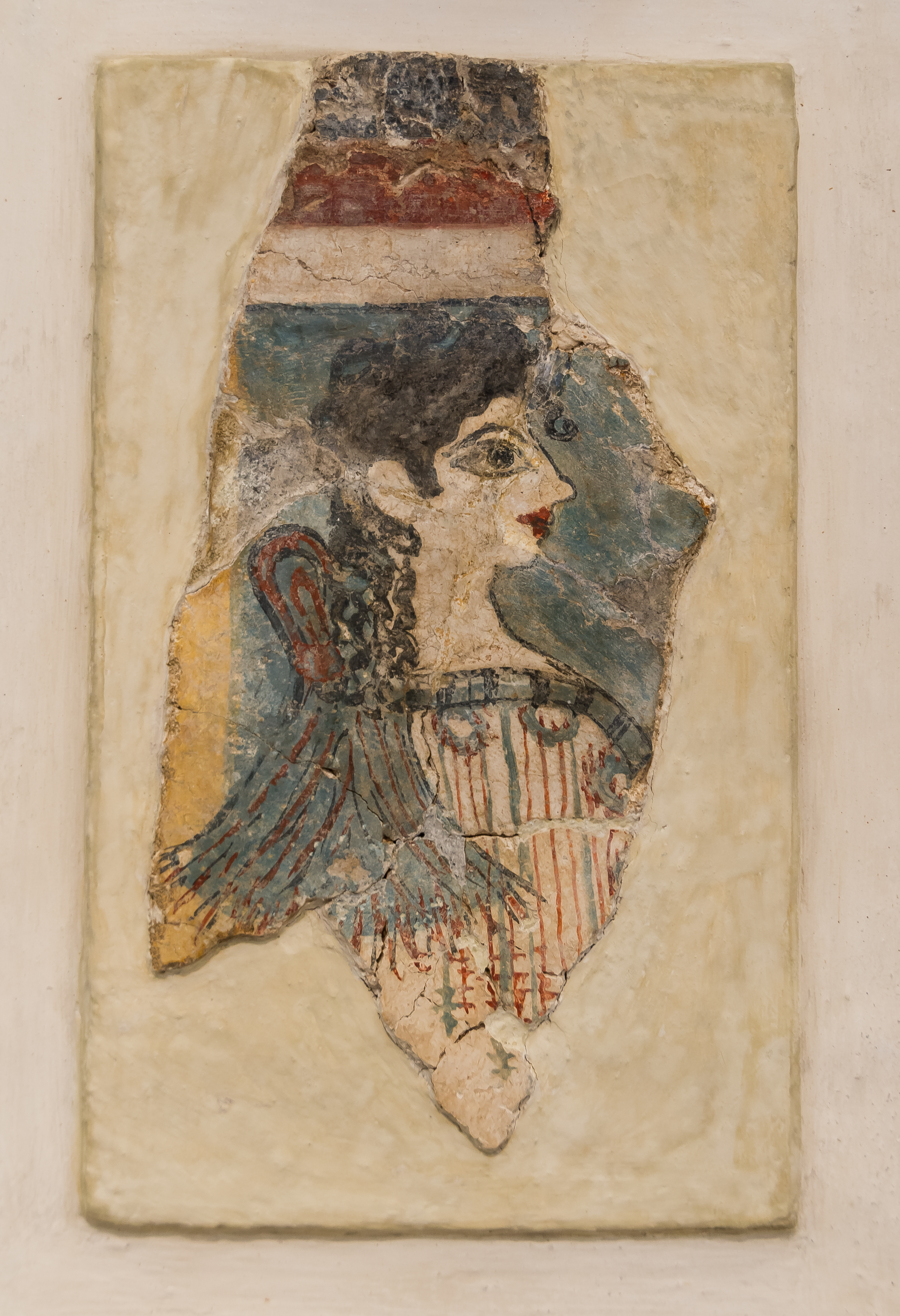 "La petite Parisienne", minoan fresco from Knossos palace, Crete, Greece.